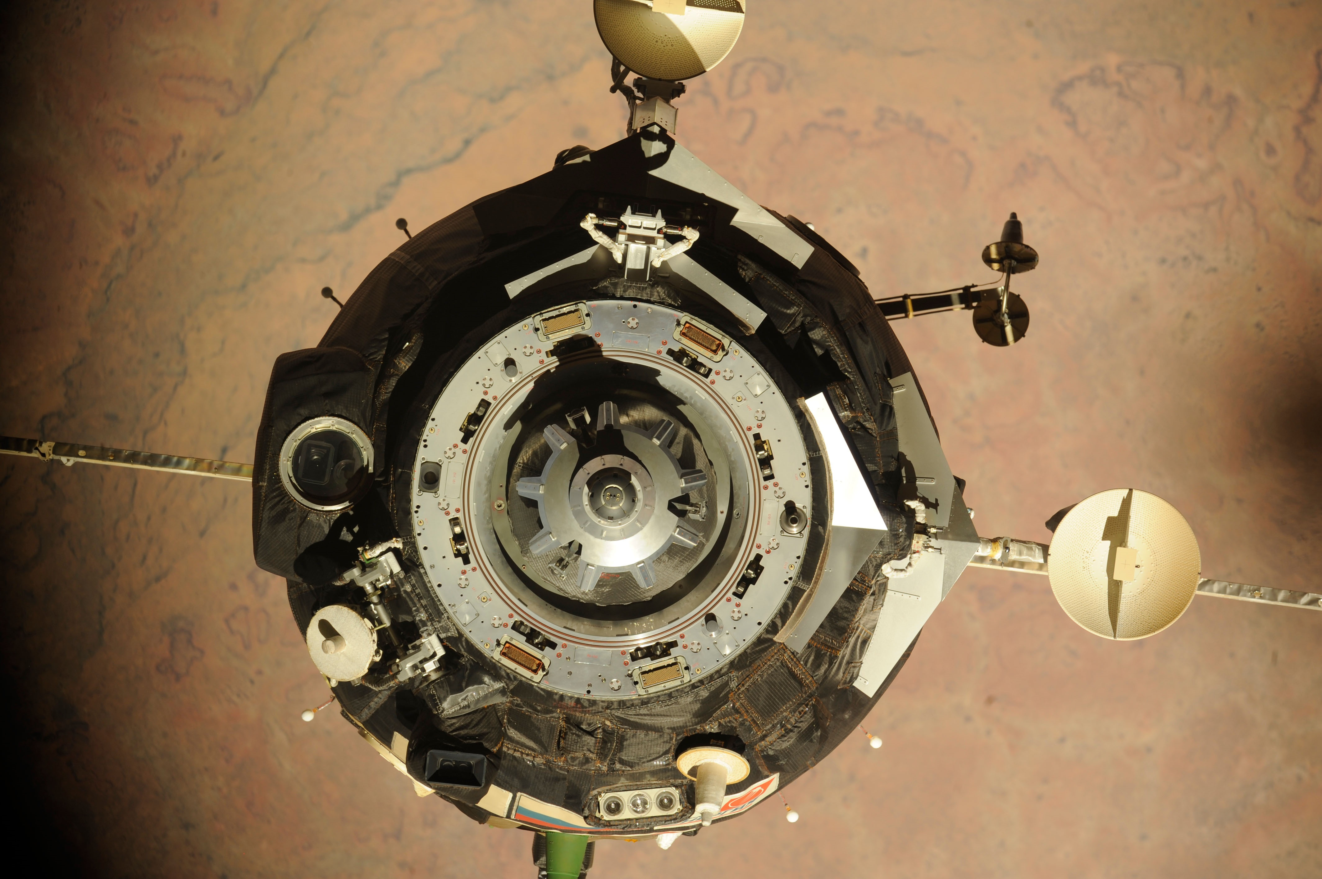 The Soyuz TMA-16 spacecraft is featured in this image photographed by an Expedition 22 crew member on the International Space Station during the relocation of the Soyuz from the Zvezda Service Module's aft port to the Poisk module. Russian cosmonaut Maxim Suraev, Soyuz commander and Expedition 22 flight engineer; along with NASA astronaut Jeffrey Williams, Expedition 22 commander, undocked the Soyuz spacecraft at 4:03 a.m. (CST) and docked it to Poisk at 4:24 a.m. on Jan. 21, 2010.